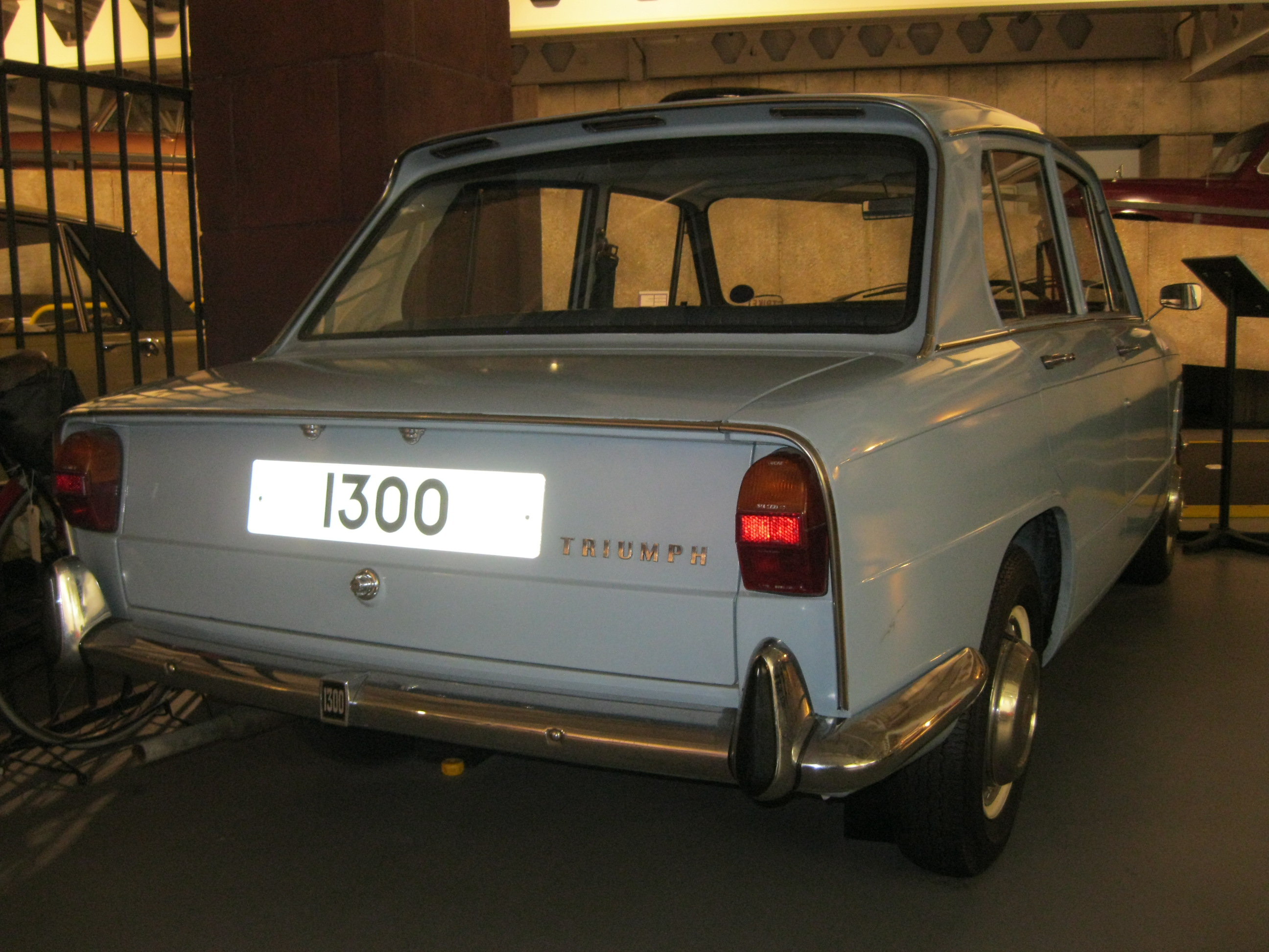 Nice example of Triumph's first front-wheel drive saloon.